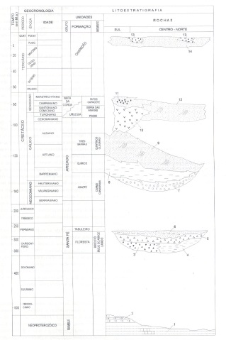 Sedimentação da Bacia Sanfranciscana